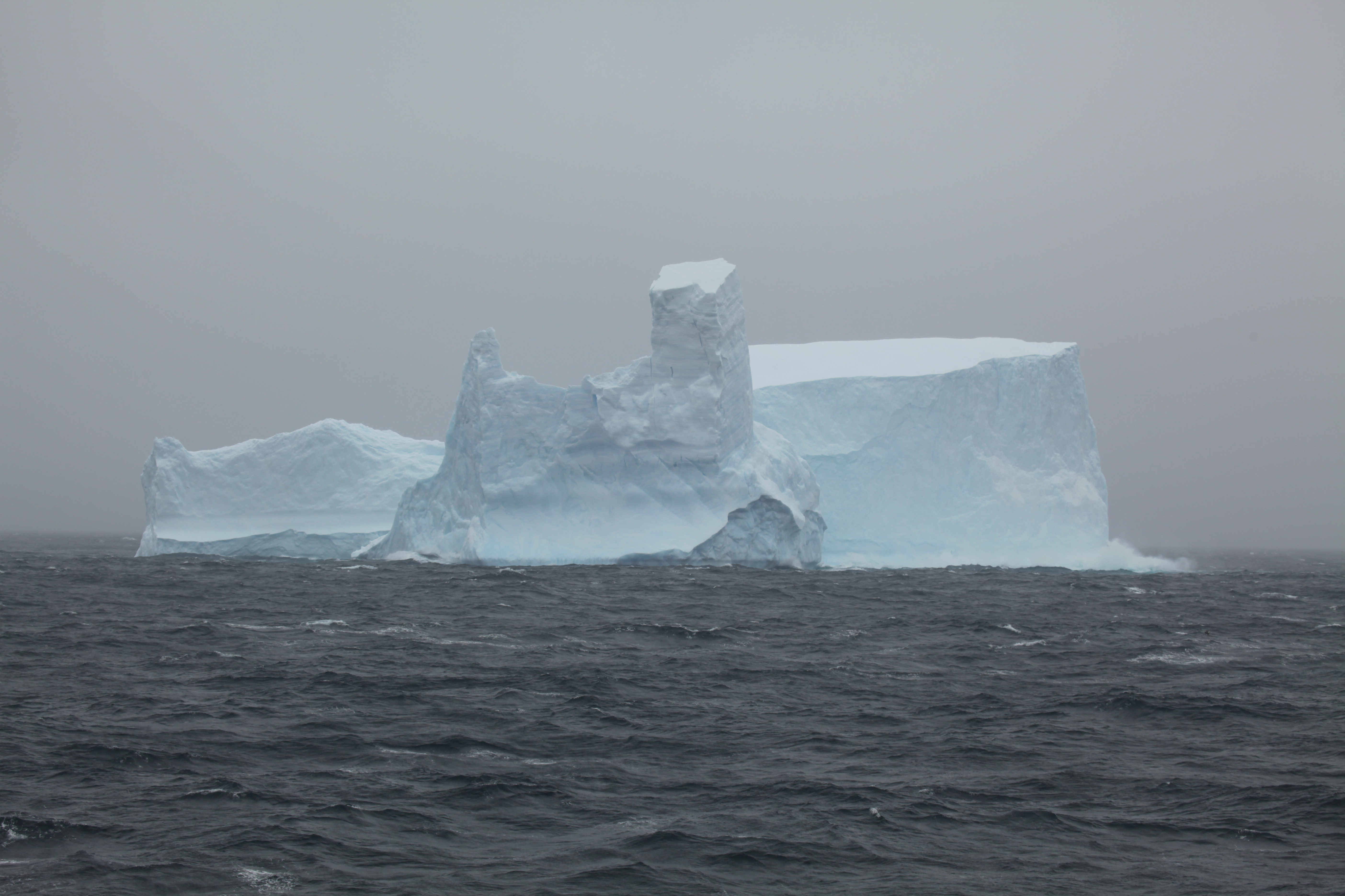 Icebergs near the South Orkney Islands.